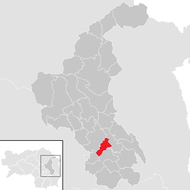 district Weiz